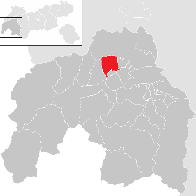 District Landeck